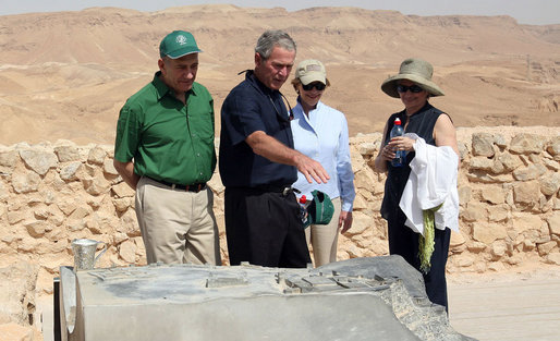 Prime Minister Ehud Olmert, Mrs. Laura Bush and Mrs. Aliza Olmert listen as President George W. Bush talks about the water system at Masada, the historic fortress built by King Herod of Judea. The couple’s toured the National Park Thursday, May 15, 2008, during the visit to Israel by President and Mrs. Bush to help celebrate the 60th anniversary of the country’s independence. White House photo by Joyce N. Boghosian